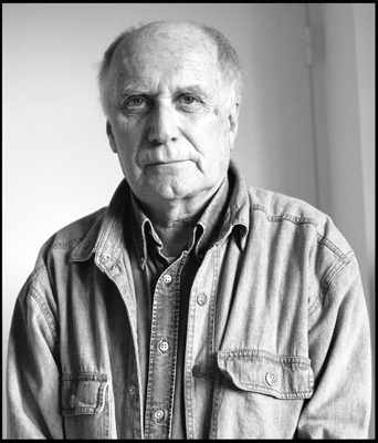 black and white portrait of François Maspero